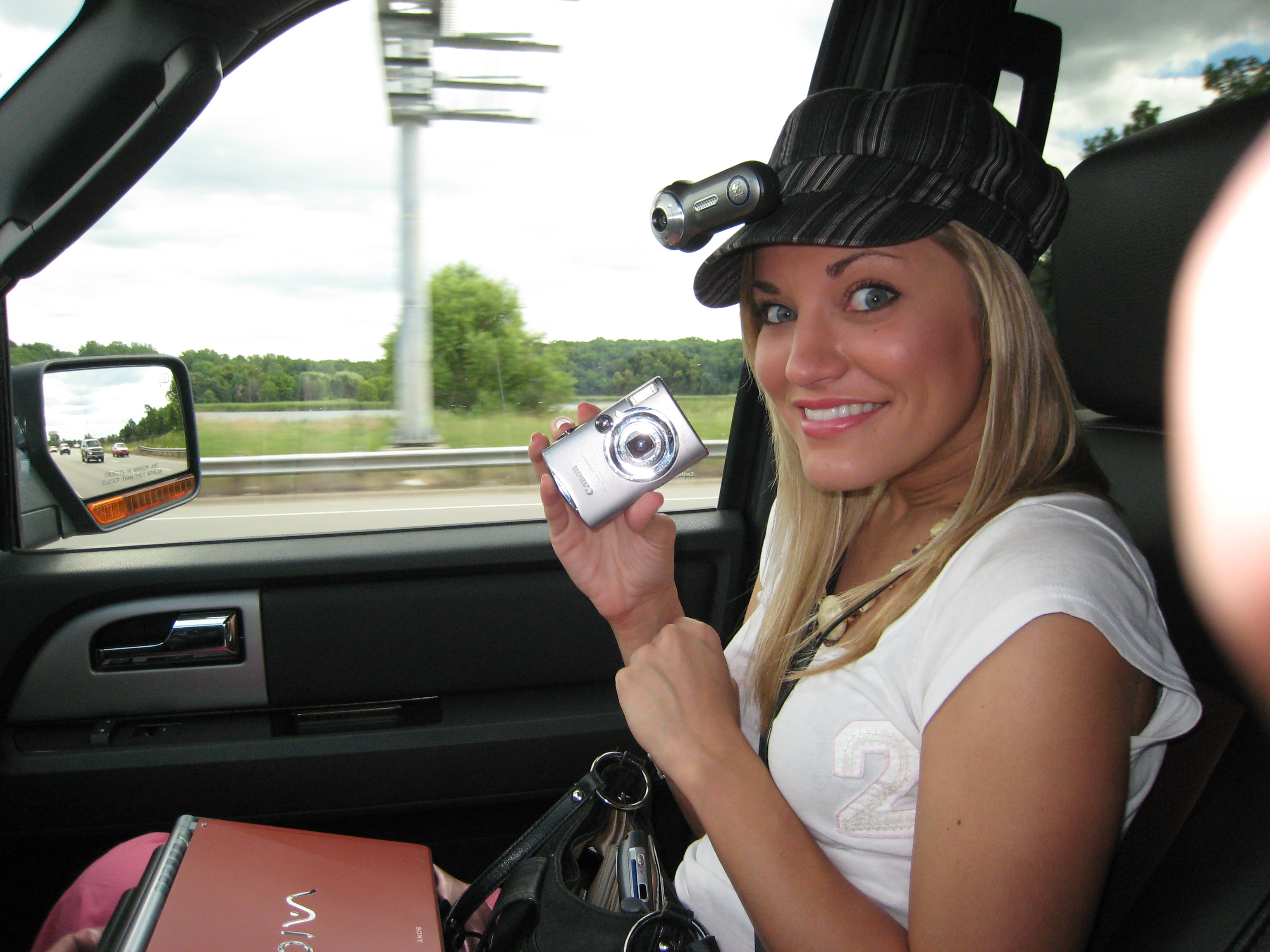 Justine Ezarik in a car with lifecasting equipment. Original description: Check out if you want to see live streaming of dinner & drinks from Pracna. More on this at More on this here.